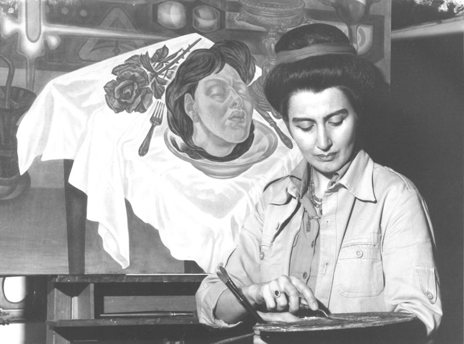 Elsa Olivia Urbach painting her piece "Bluttransfusion".